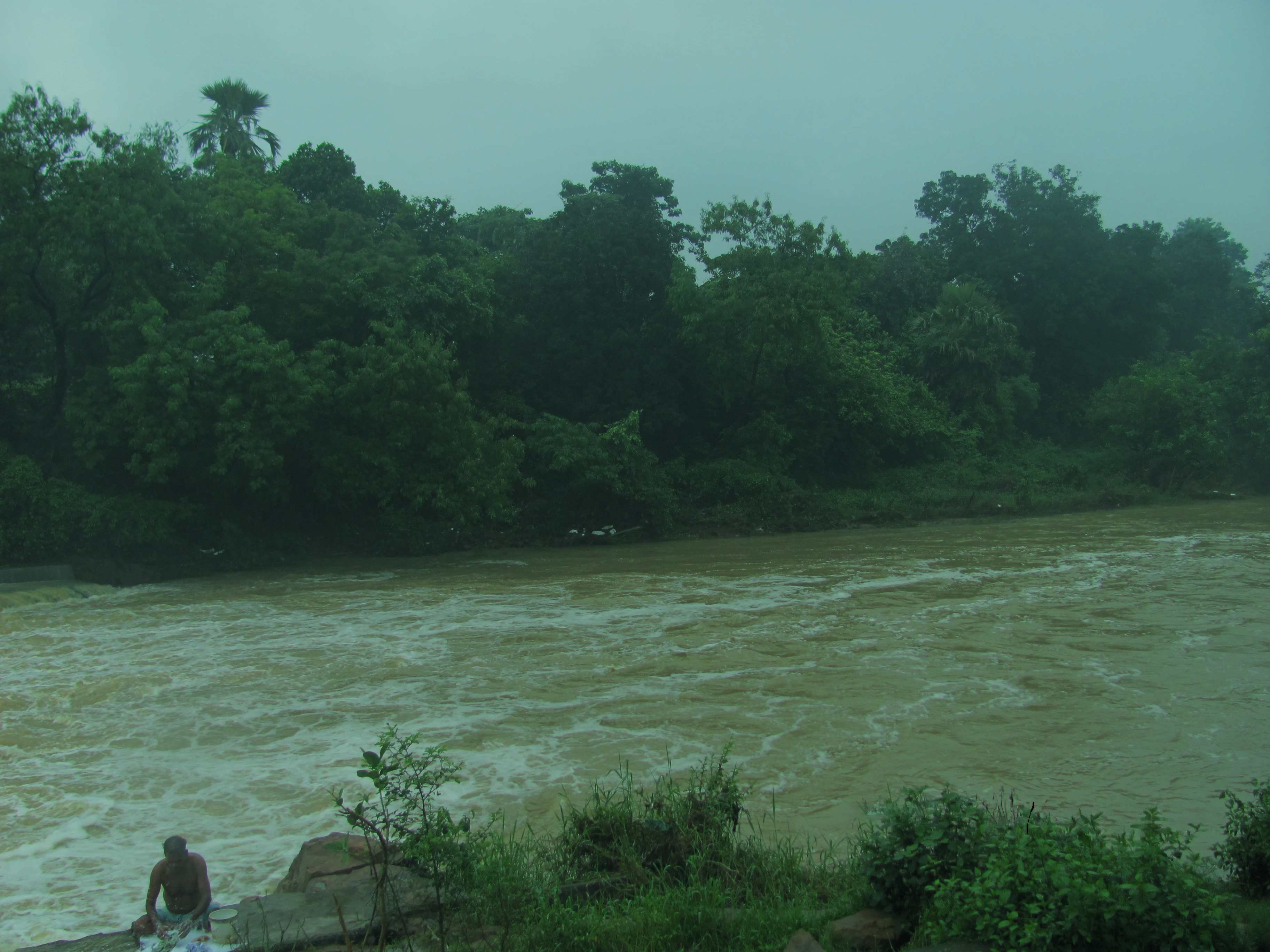 River Katri near Lilori Temple in Katars, Dhanbad District of Jharkhand State of India. It is a small river but becomes very dangerous during monsoons.